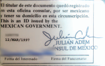 Specimen of the laminated Mexican CID card (low-security) (back side) A.K.A. Matricula Consular